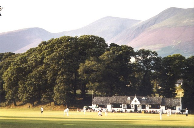 A cricket match with a view Skiddaw is the mountain in the background.